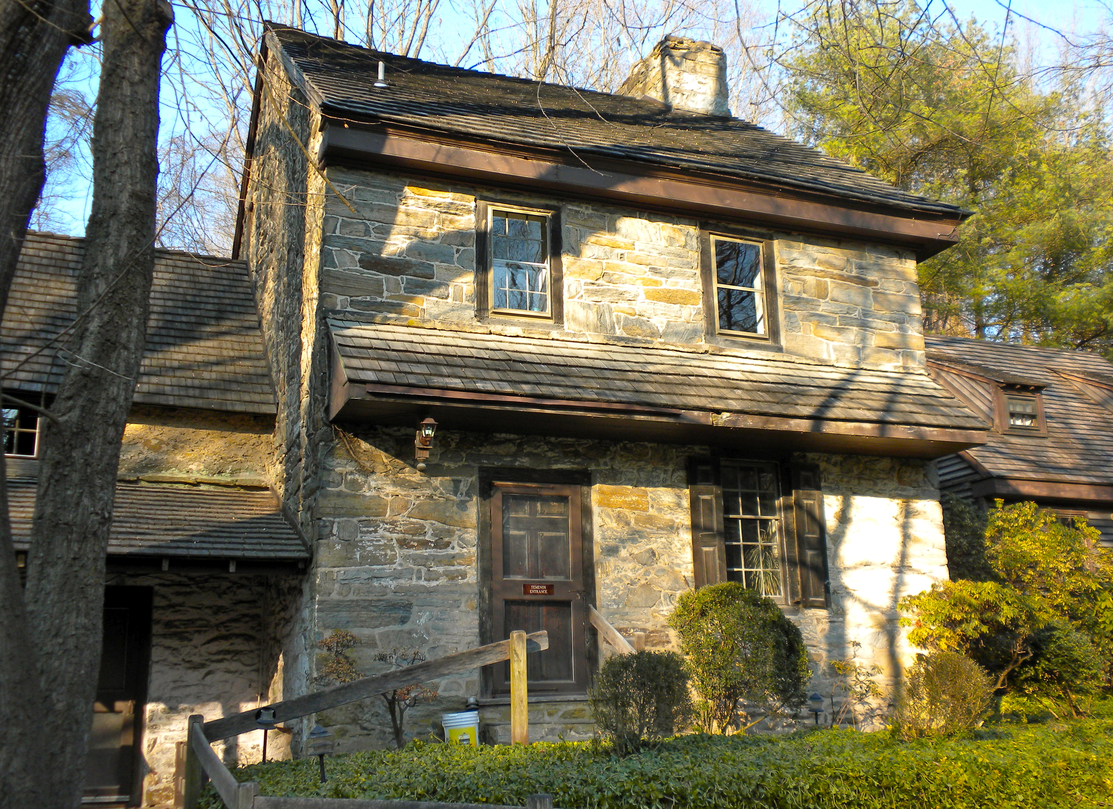 Temple Webster Stoner House, built around 1714-1730, on Broad Run (creek) and Broad Run Road east of Romansville off Pennsylvania Route 162/ About a mile south of Como Farm and Baily Farm, both also on the NRHP. Now used as a Unitarian Retreat. Out of the way location is considered one reason why a very old colonial Quaker style house survives intact. On NRHP